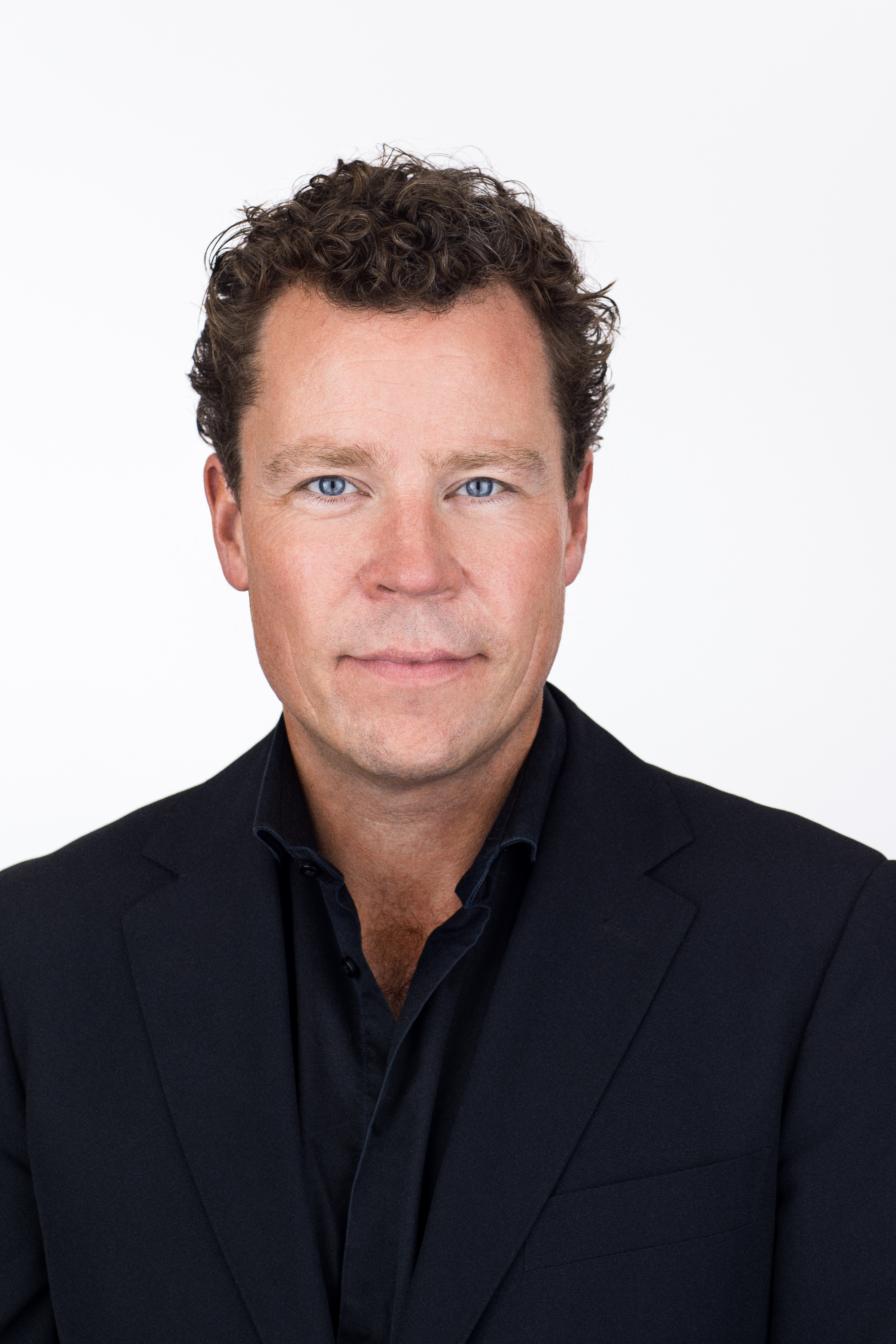 Top candidate for the European Parliament Election 2014 for the Social Liberal Party of Denmark.